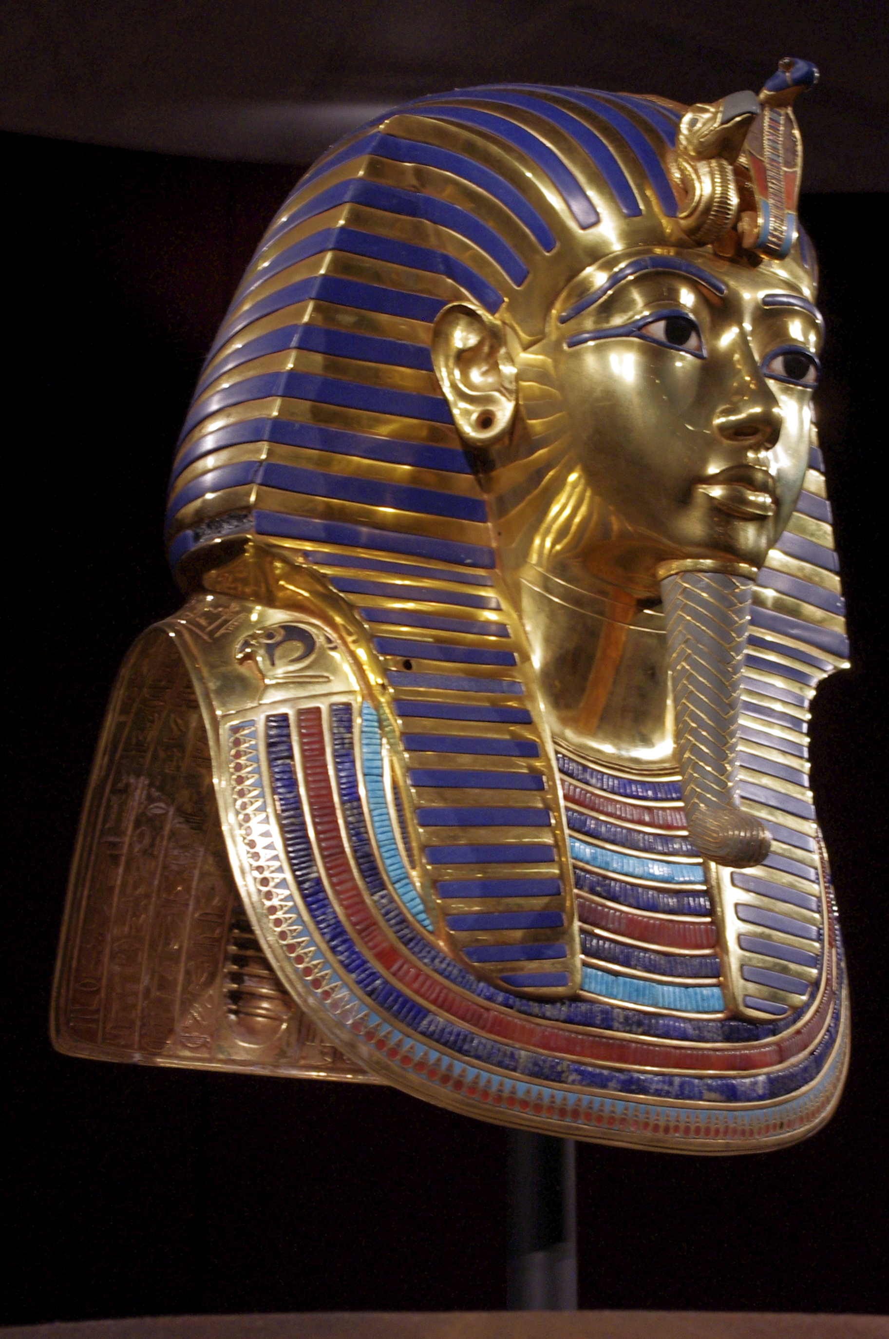 Treasure of Tutankhamun, exposition in Paris 2012.